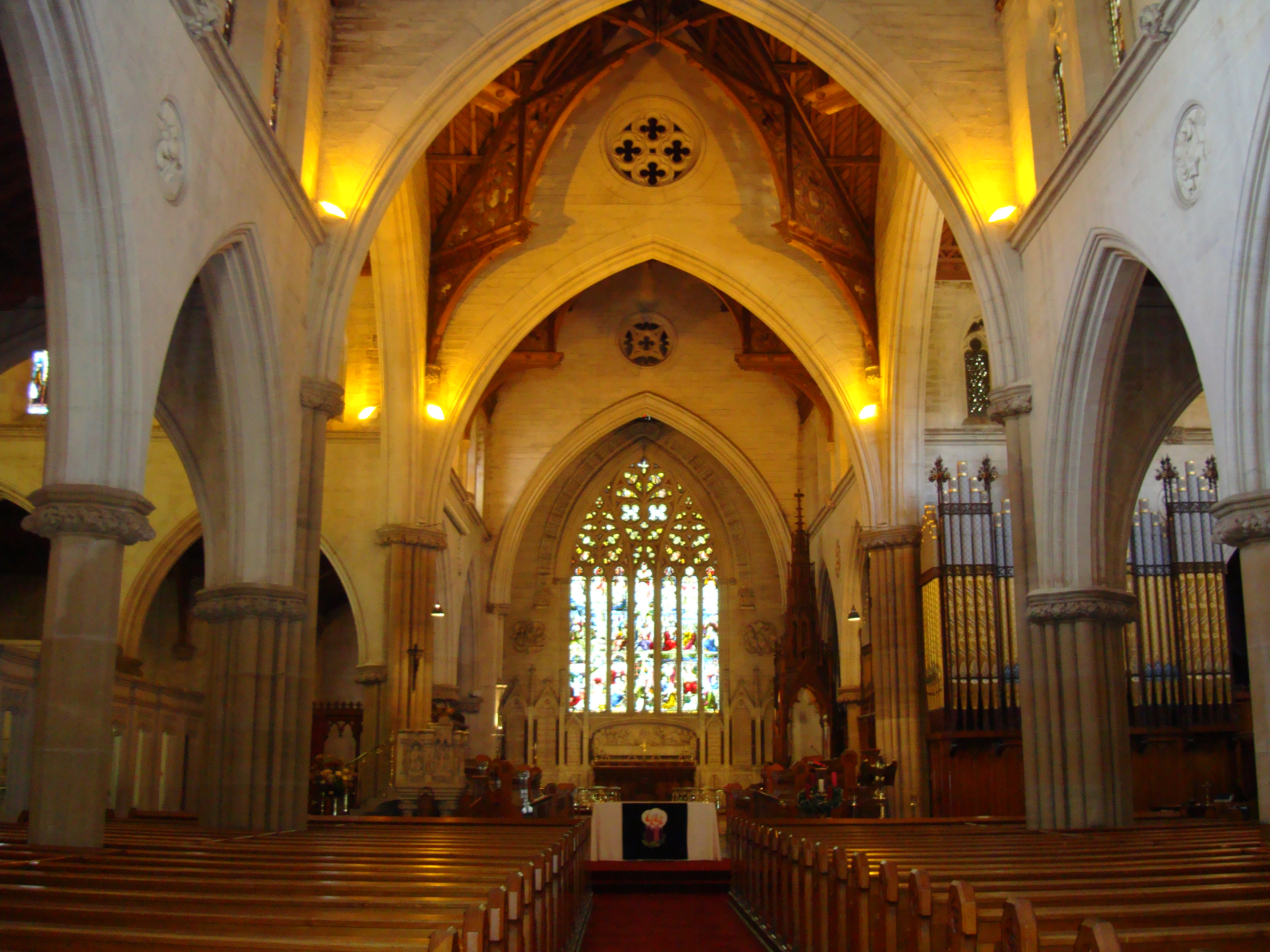 Photograph of the interior of St Saviour's Cathedral, Goulburn, New South Wales, Australia